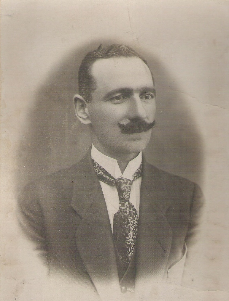 Salih Bozok (Mustafa Kemal's chief aide-de-camp )